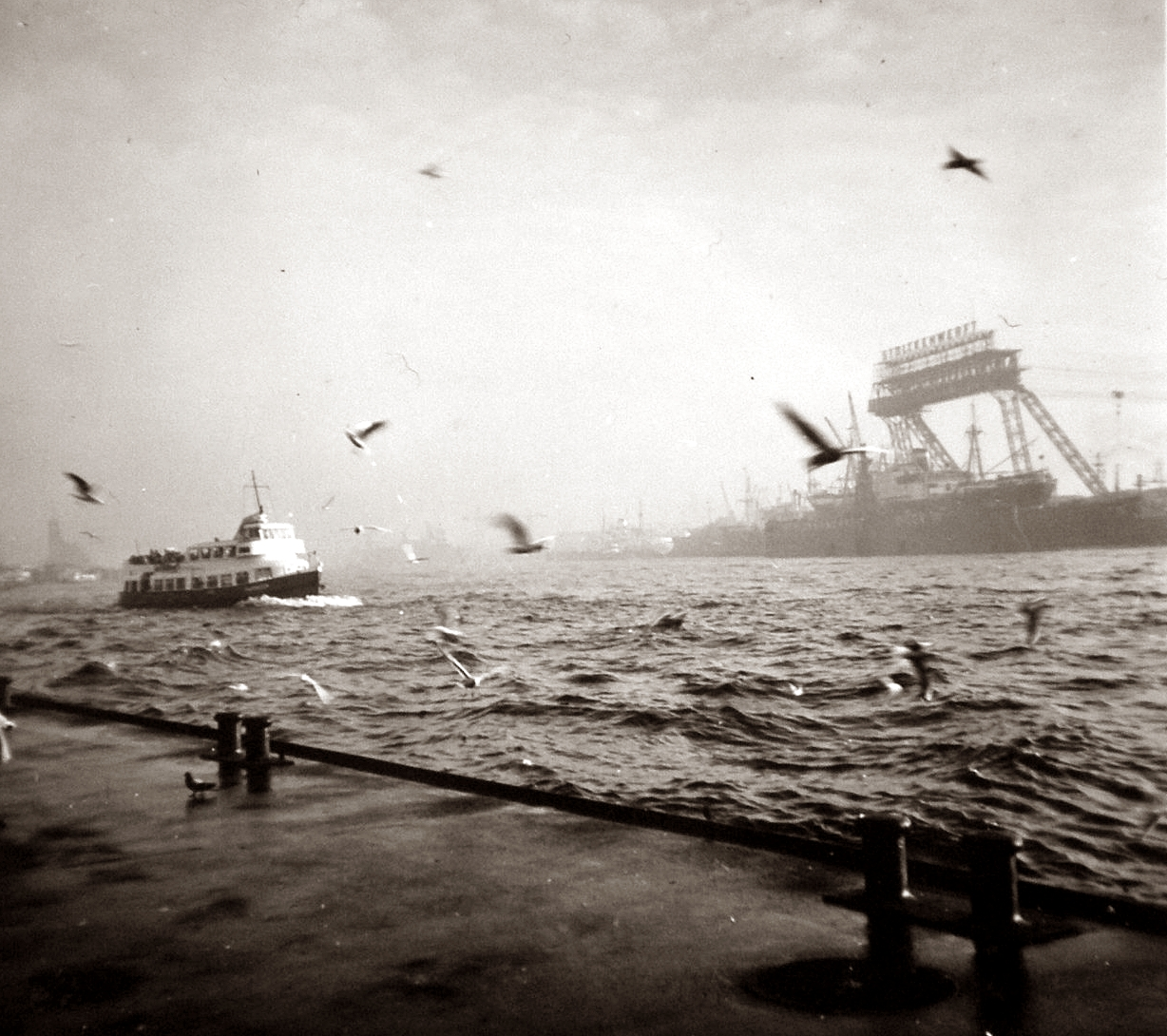 Port of Hamburg, Germany: dock of Stuelcken ship yard